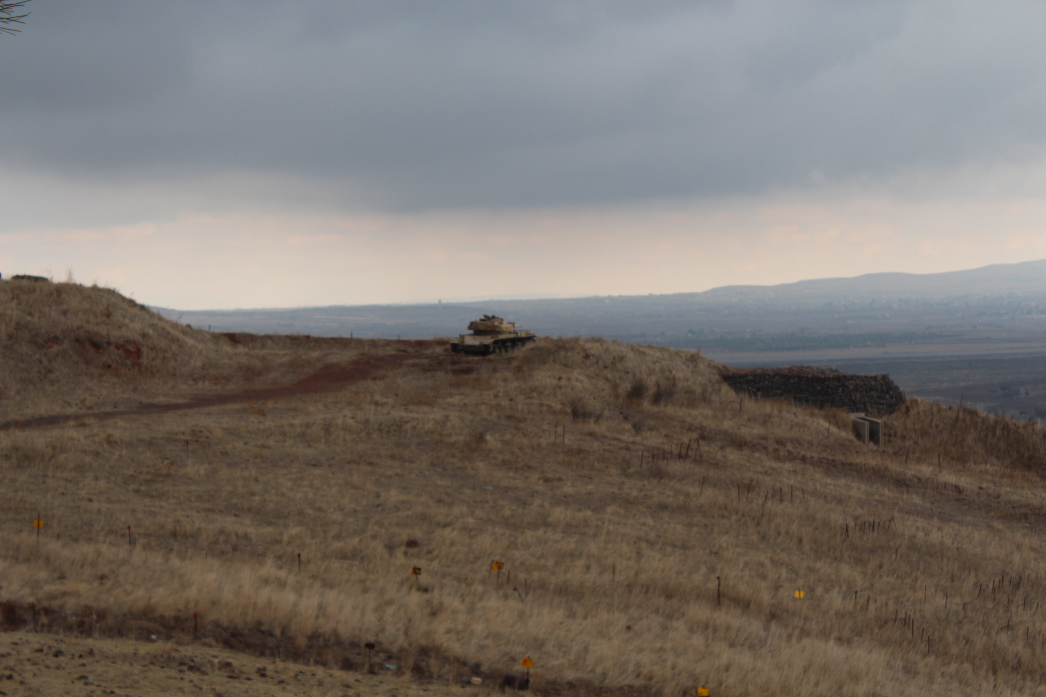 "Emek HaBacha" - Valley of Tears memorial (Oz 77 Memorial), Golan Hights, Israel This image was taken as part of the Elef Millim project trip to the Northern Golan Hights, in Israel which was held on Friday, 6th December 2013. To view all images uploaded as part of the Elef Millim Project